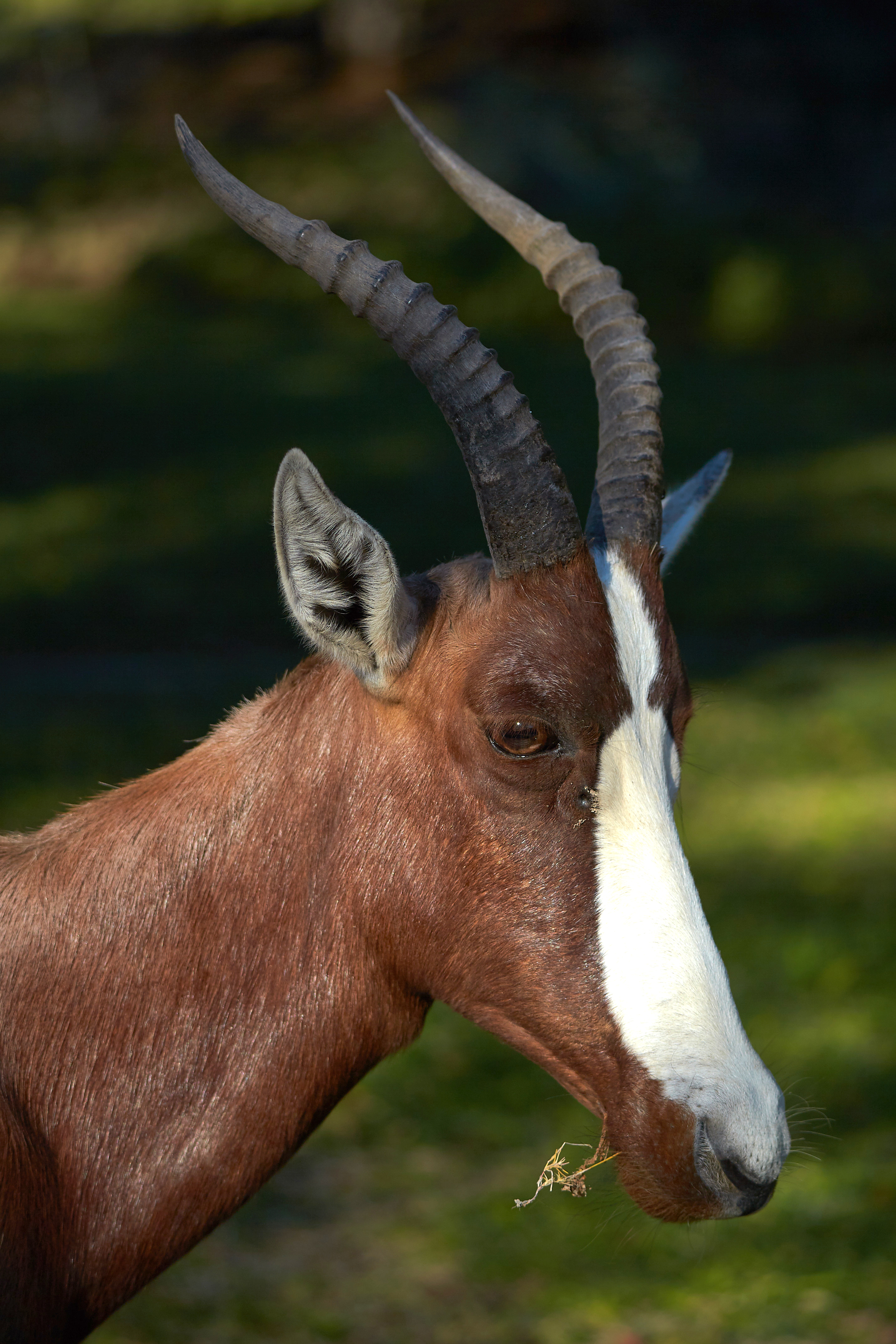 Blesbok (Damaliscus pygargus phillipsi) near Namutoni, Etosha, Namibia